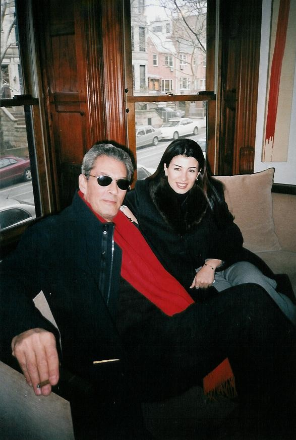 Joumana Haddad and Paul Auster on march 2005.